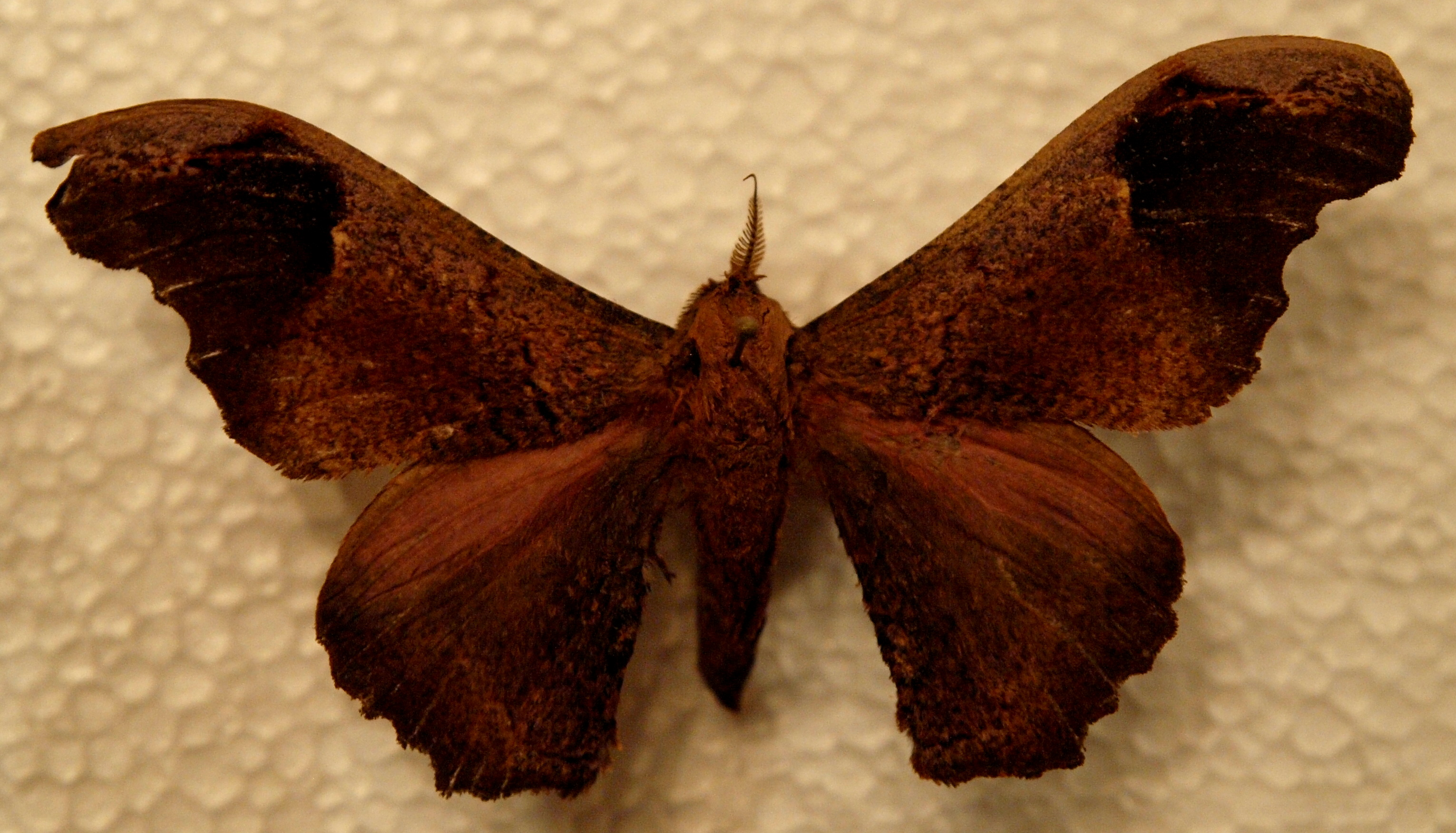 Micragone lichenodes. Source: own collection